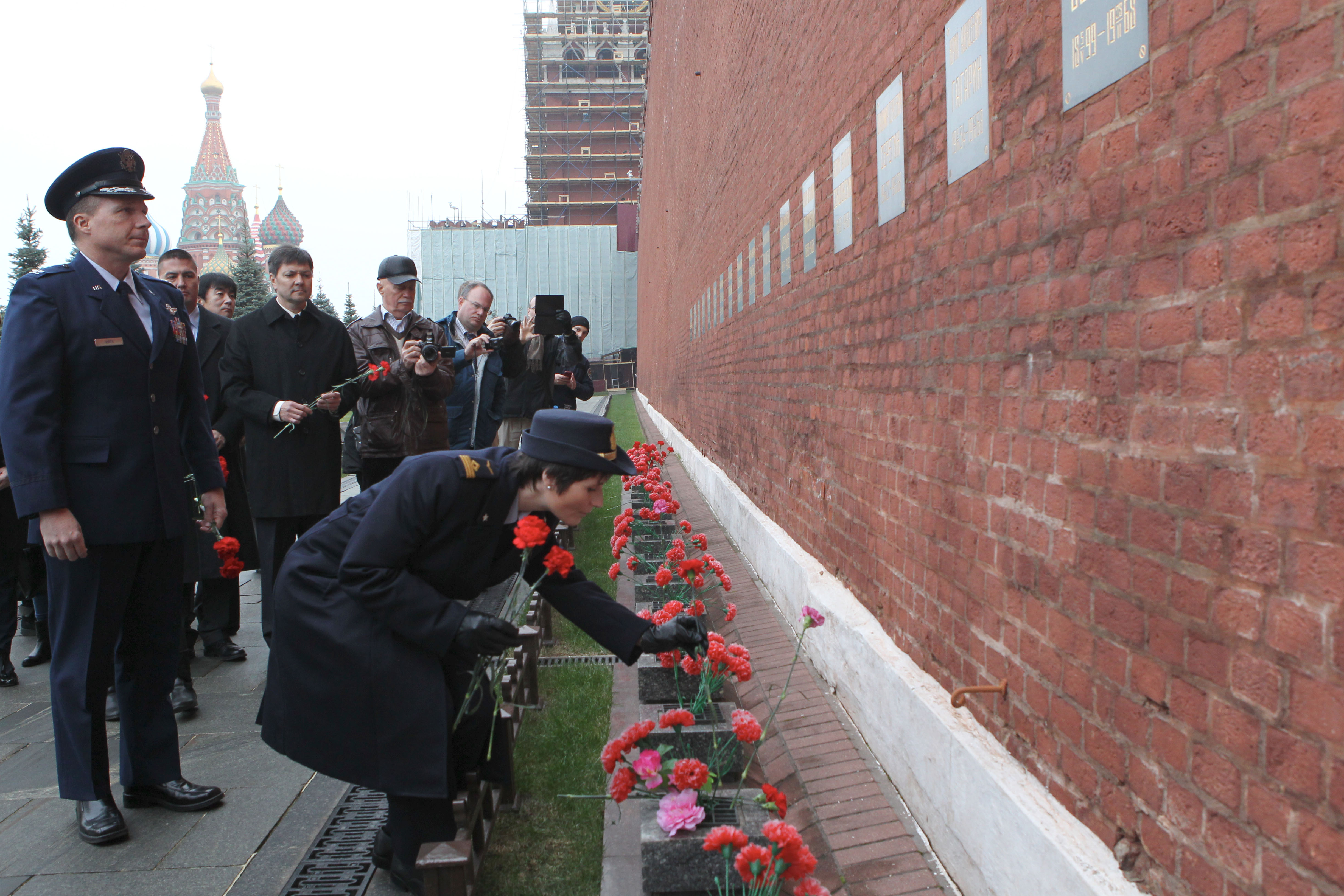 At the Kremlin Wall in Red Square in Moscow, Expedition 42/43 crewmember Samantha Cristoforetti of the European Space Agency lays flowers Nov. 6 at the site where Russian space icons are interred. Looking on is crewmate Terry Virts of NASA (left). Cristoforetti, Anton Shkaplerov of the Russian Federal Space Agency (Roscosmos) and Virts will launch Nov. 24, Kazakh time from the Baikonur Cosmodrome in Kazakhstan on their Soyuz TMA-15M spacecraft for a 5 ½ month mission on the International Space Station.